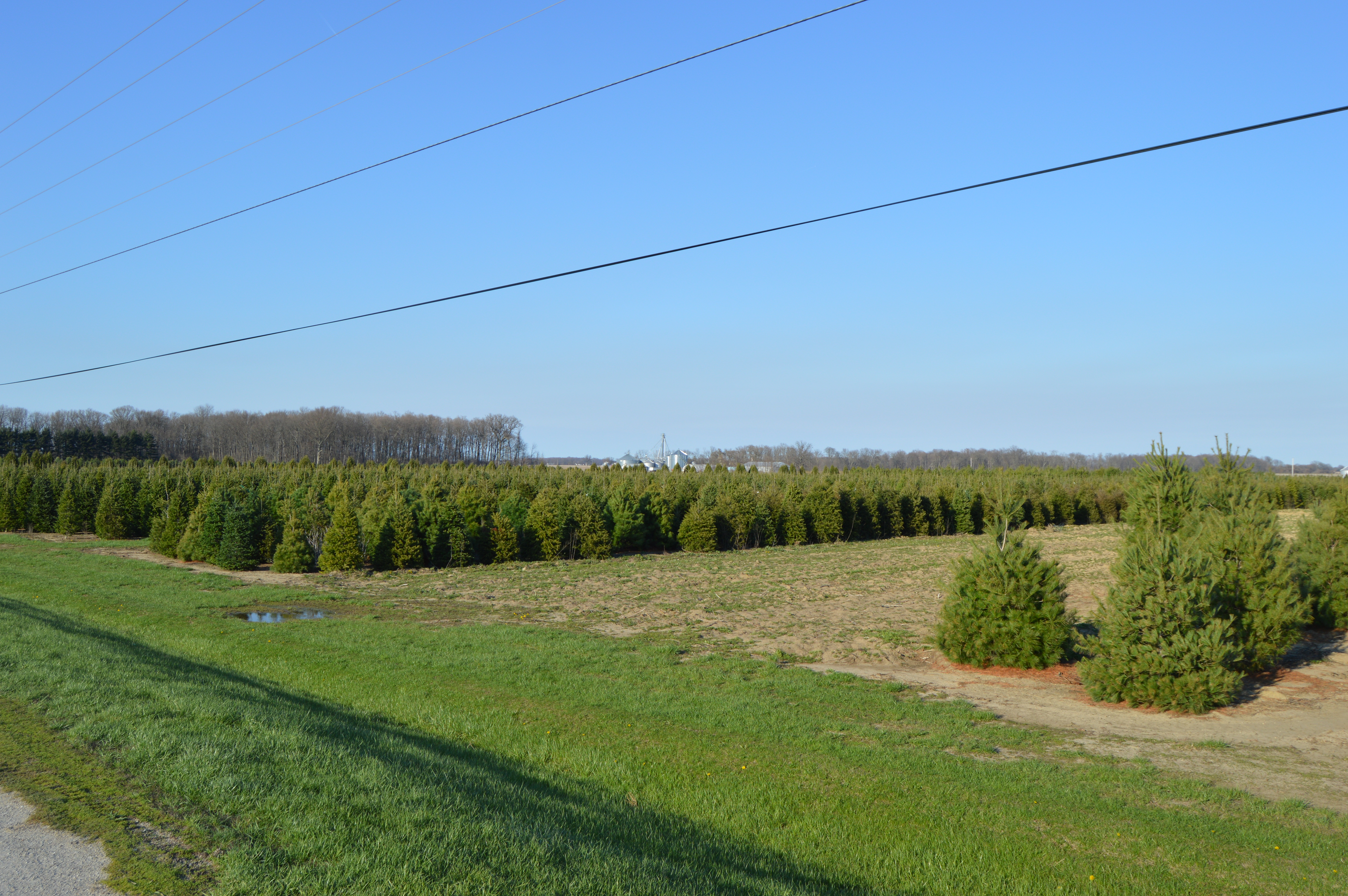 Overview of a Christmas tree farm located on the eastern side of State Route 721 immediately north of State Route 49 in Union Township, Miami County, Ohio, United States.